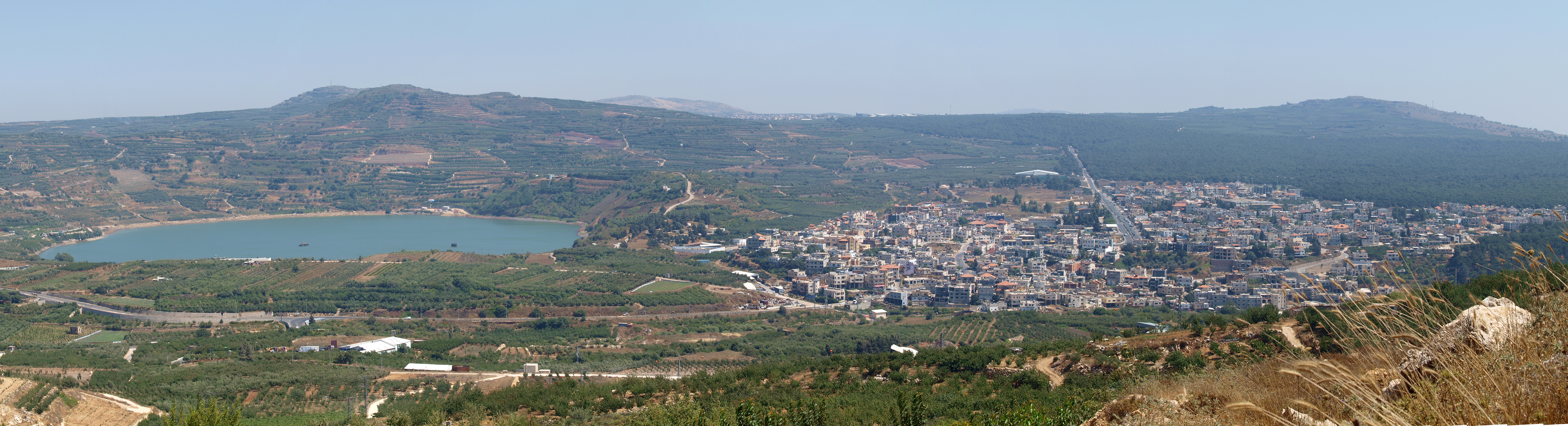 Druze village Mas'ada. Lake Ram. Golan Heights